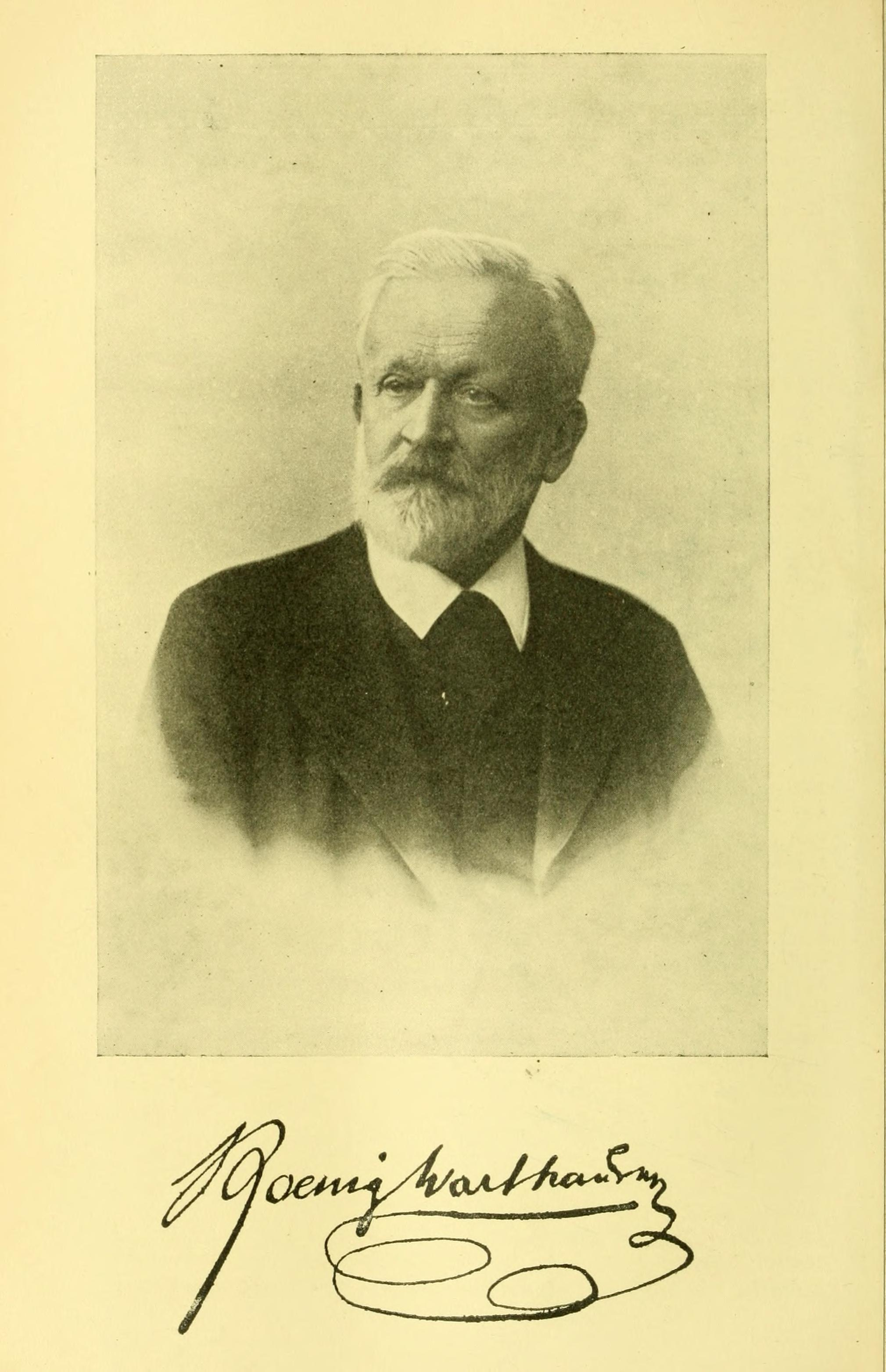 Richard von König-Warthausen (1830-1911) with signature